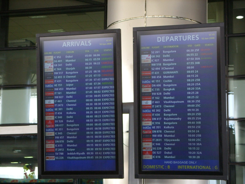 Hyderabad International Airport - departures and arrivals